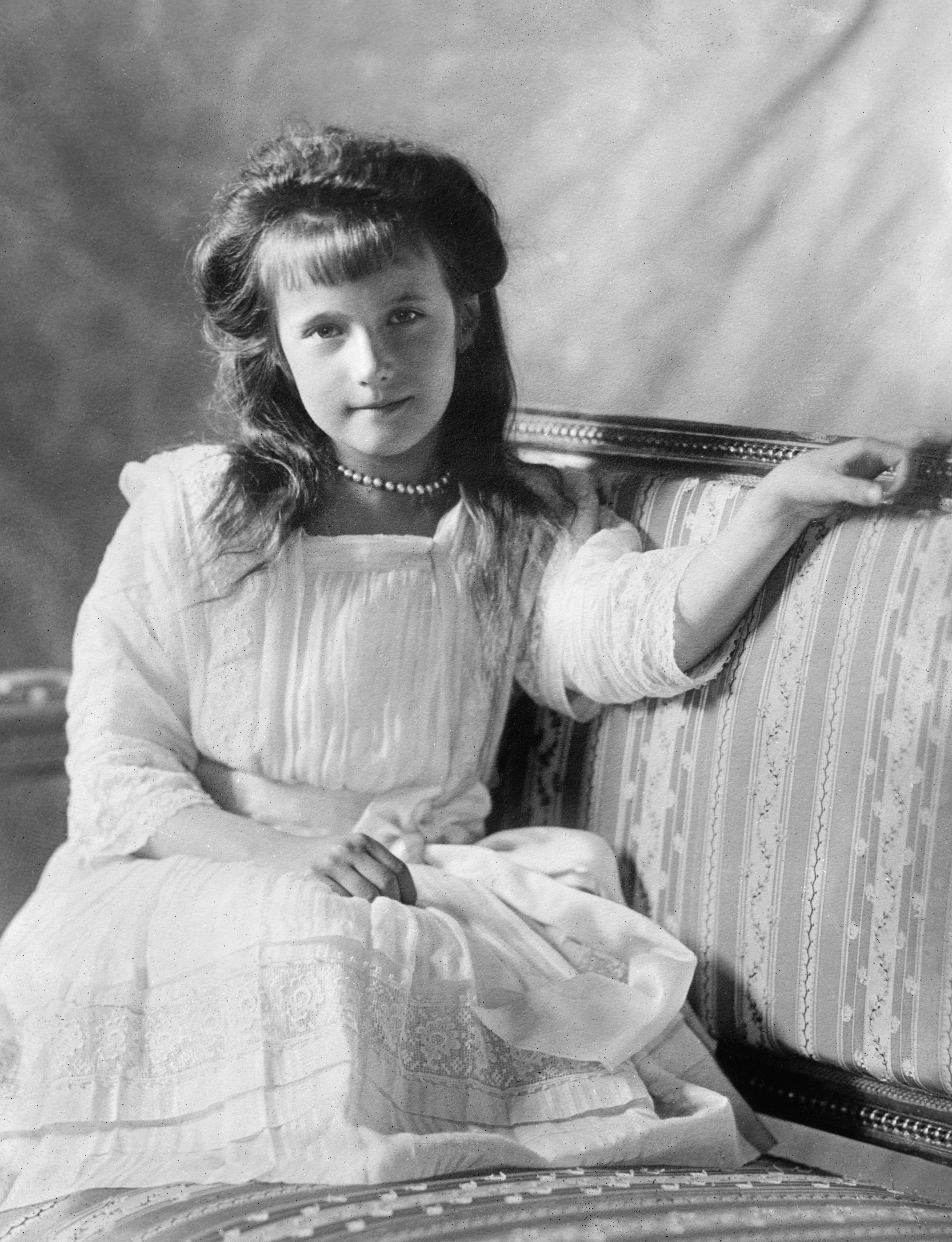 Grand Duchess Anastasia Nikolaevna of Russia